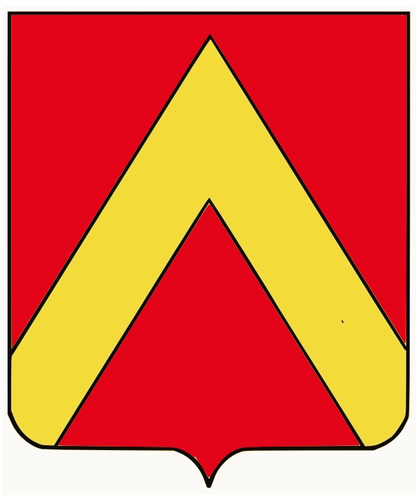 Coats of arms of the house of Herzelles